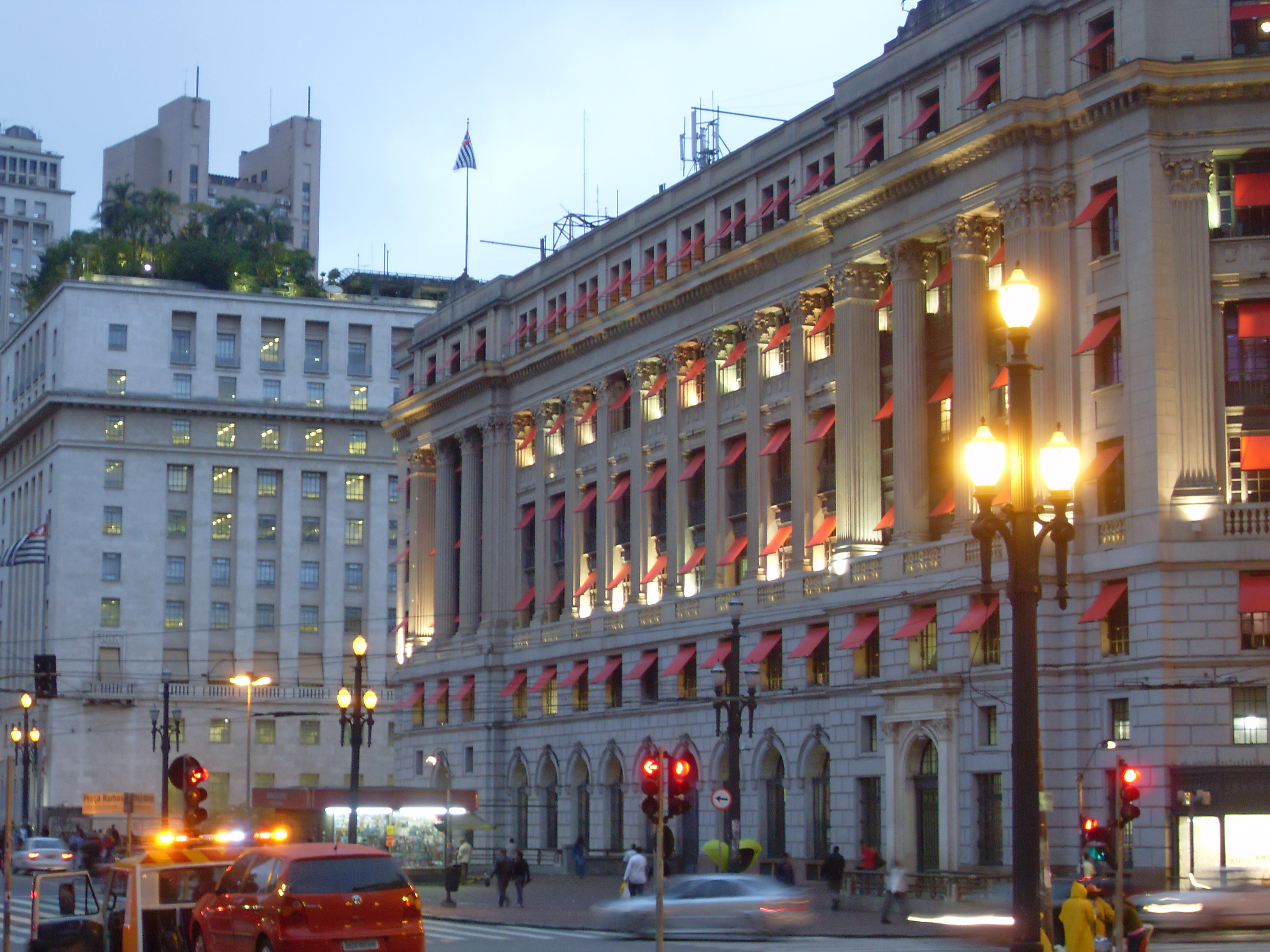 View from Theatro Municipal de São Paulo of Light Shopping Mall and São Paulo city hall.